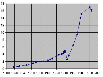 Population in Ustka (Poland) from 1818 to 2010 in thousands